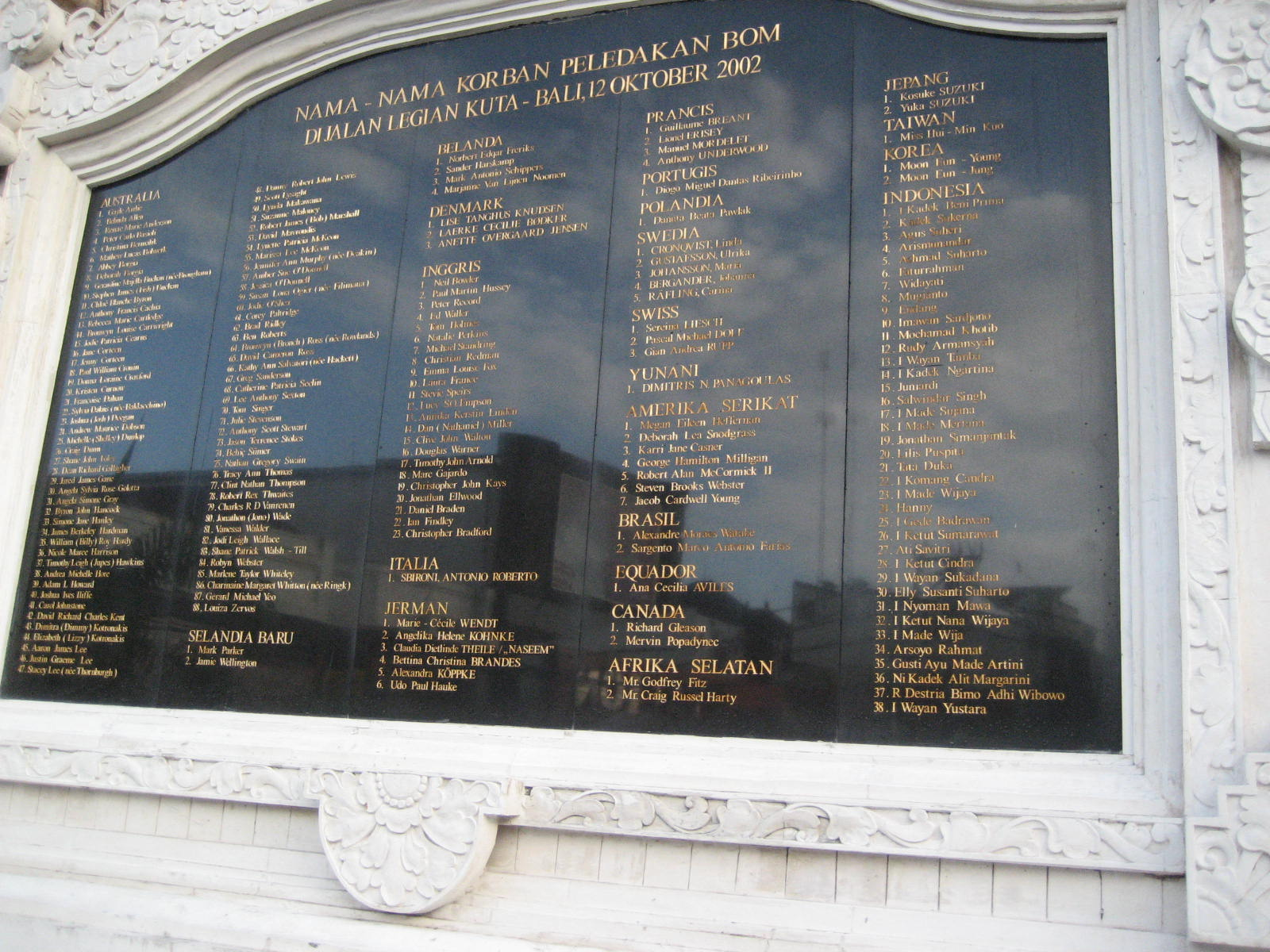 List of victims of Bali-bomb